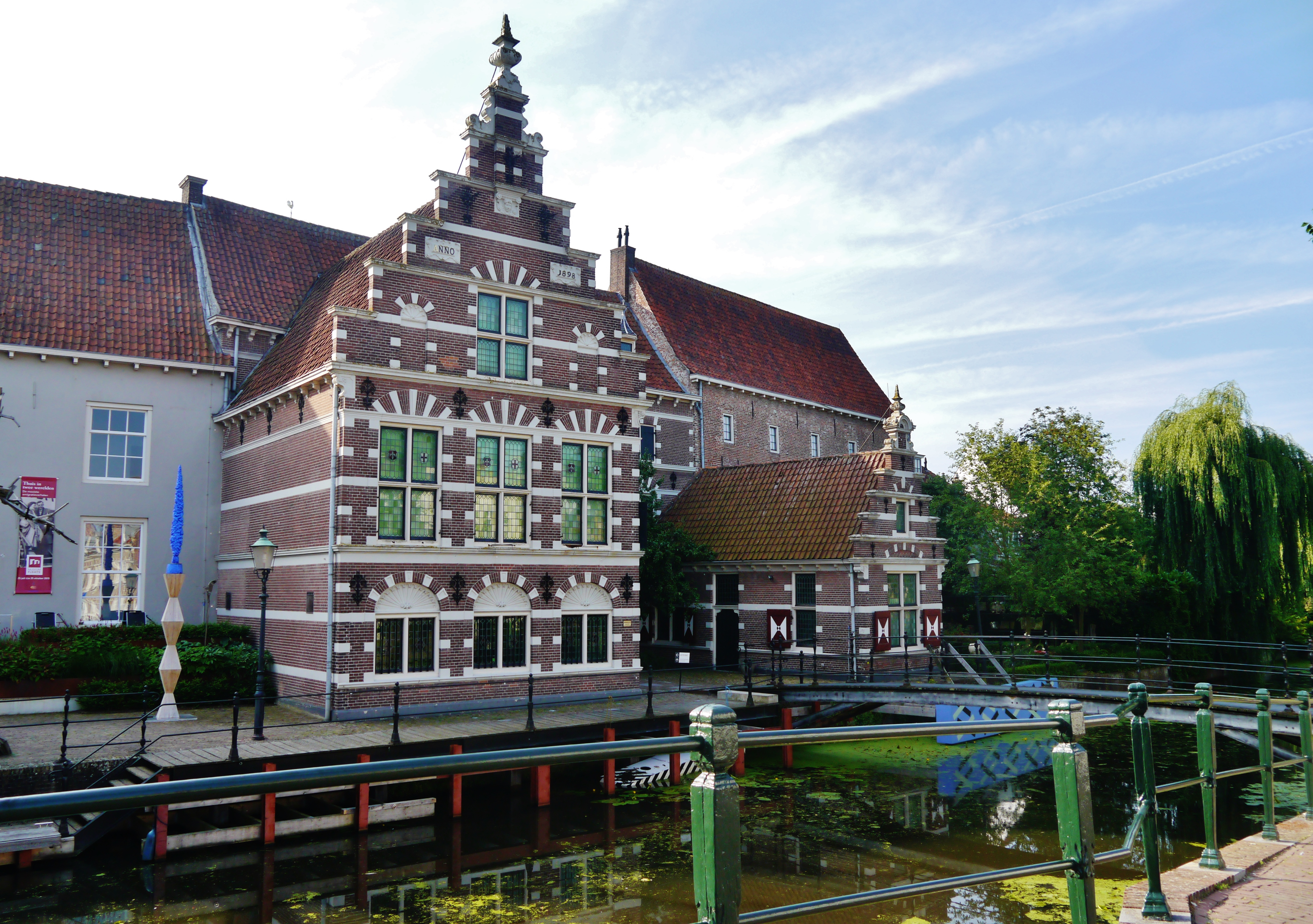 Old City of Amersfoort, Province of Utrecht, Netherlands